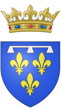 Coat of arms of Gaston, Duke of Orléans